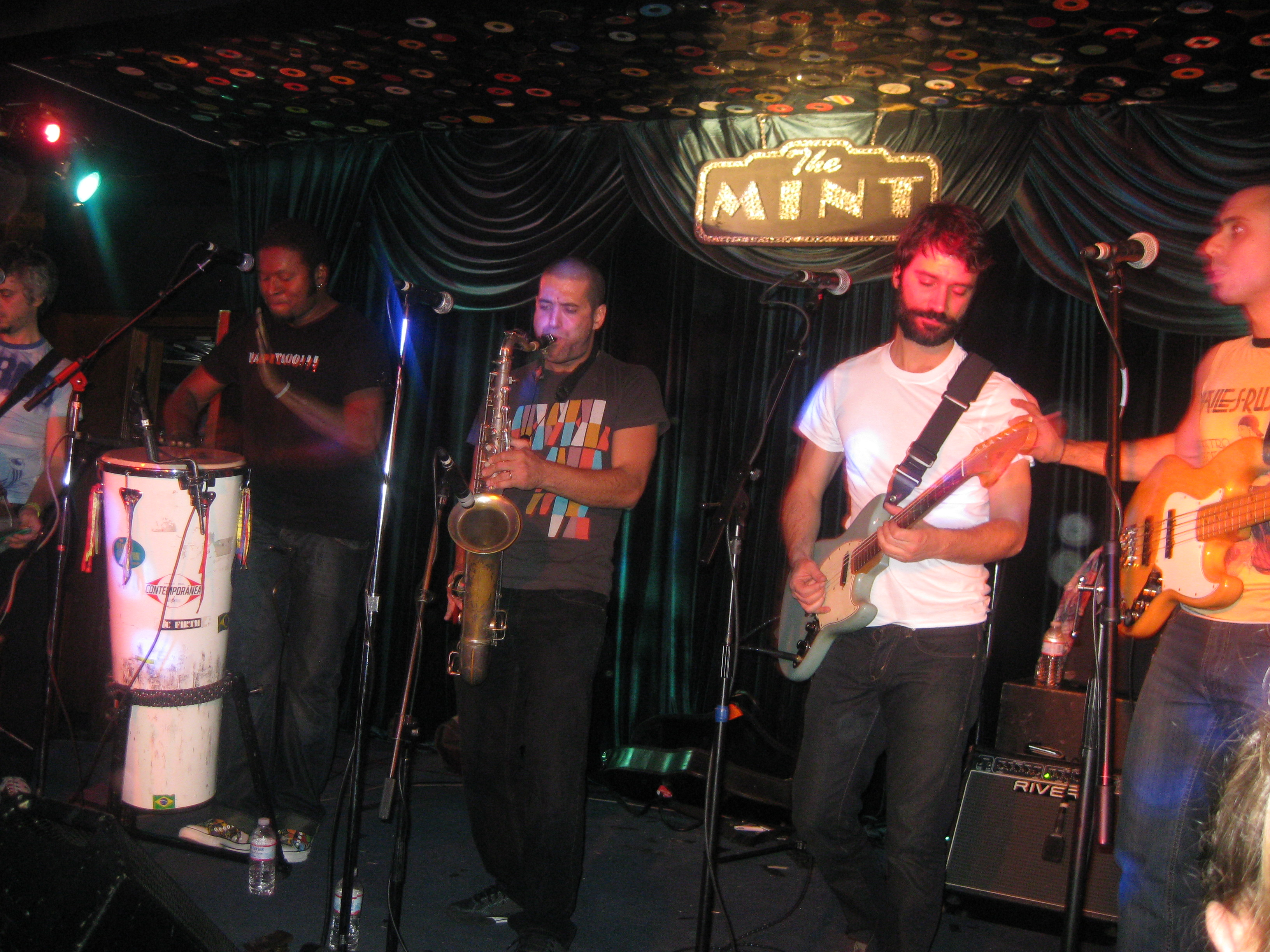 forro in the dark at the mint, la, 11/19/2009